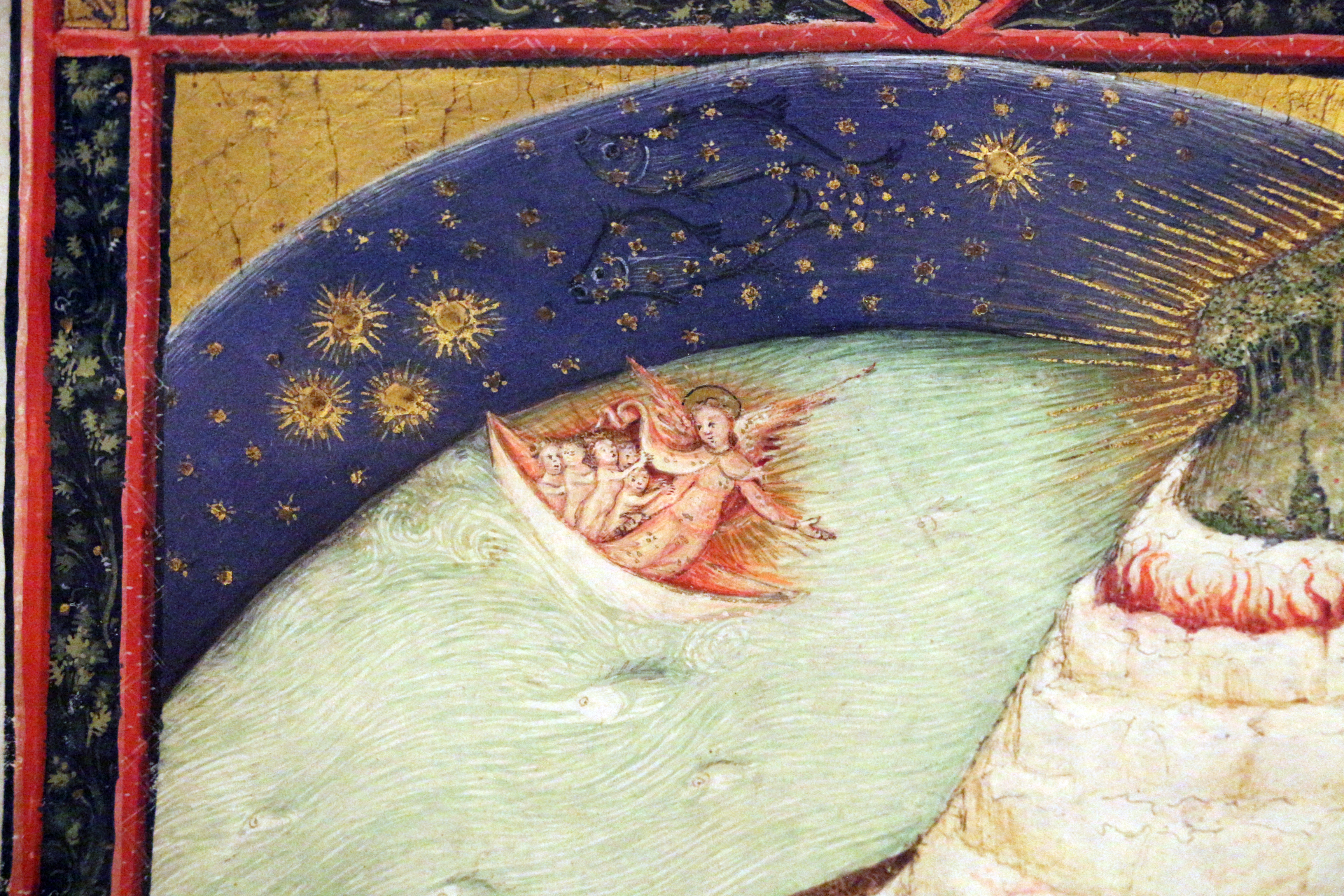 Collections of the Biblioteca Medicea Laurenziana